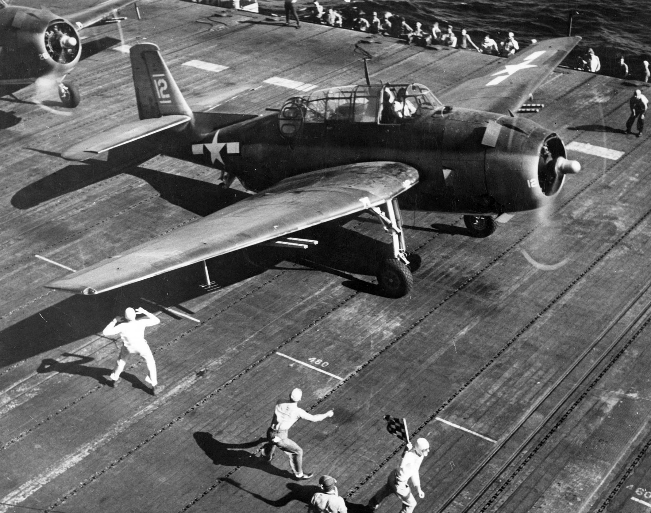 A U.S. Navy Grumman TBF Avenger of Torpedo Squadron VT-8 is poised for launch from the aircraft carrier USS Bunker Hill (CV-17) for a strike against Saipan in June 1944. Note the rocket rails.